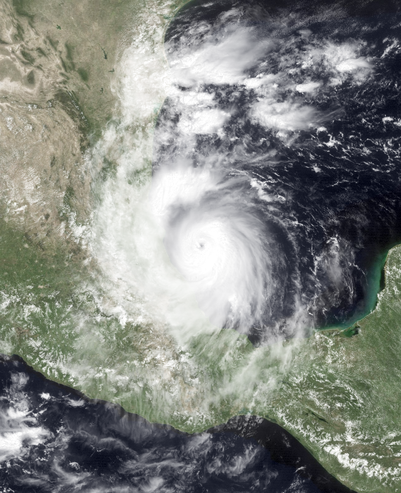 Hurricane Katia at peak intensity on September 8, 2017.